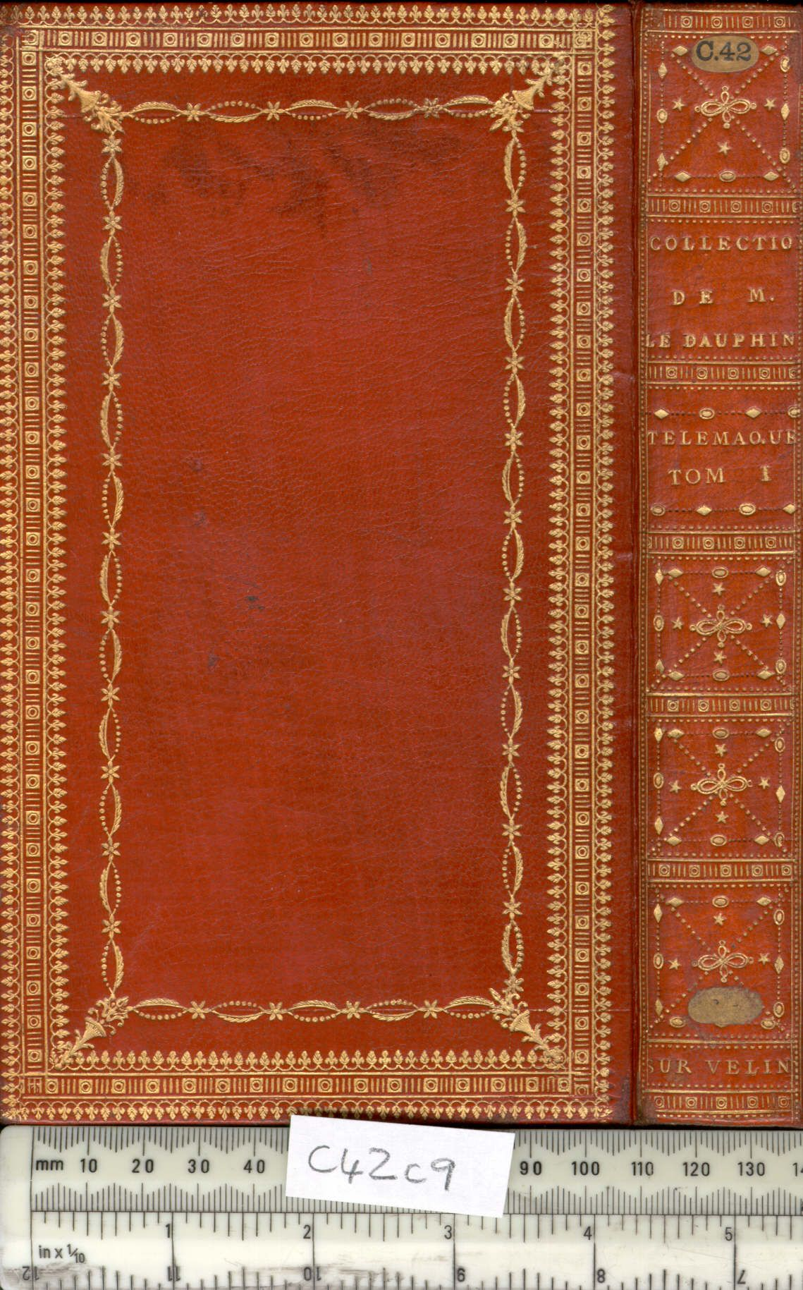 Style: Panel design; Caption: Lower cover; Colour: Red; Edge: Gilt